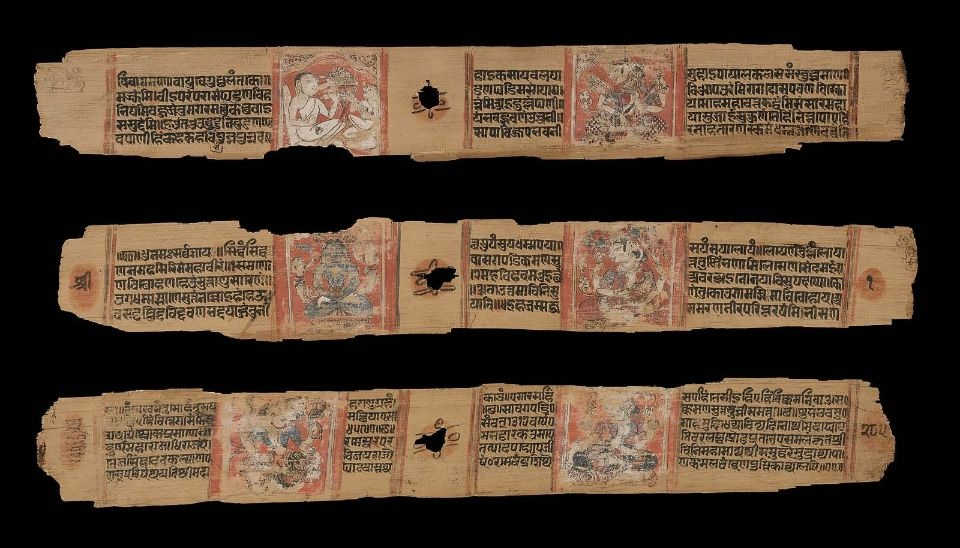 1 Sravakapratikramasutra-curni of Vijayasimha Indian, Jain, 1260, Mewar, Rajputana, India. Boston, MFA